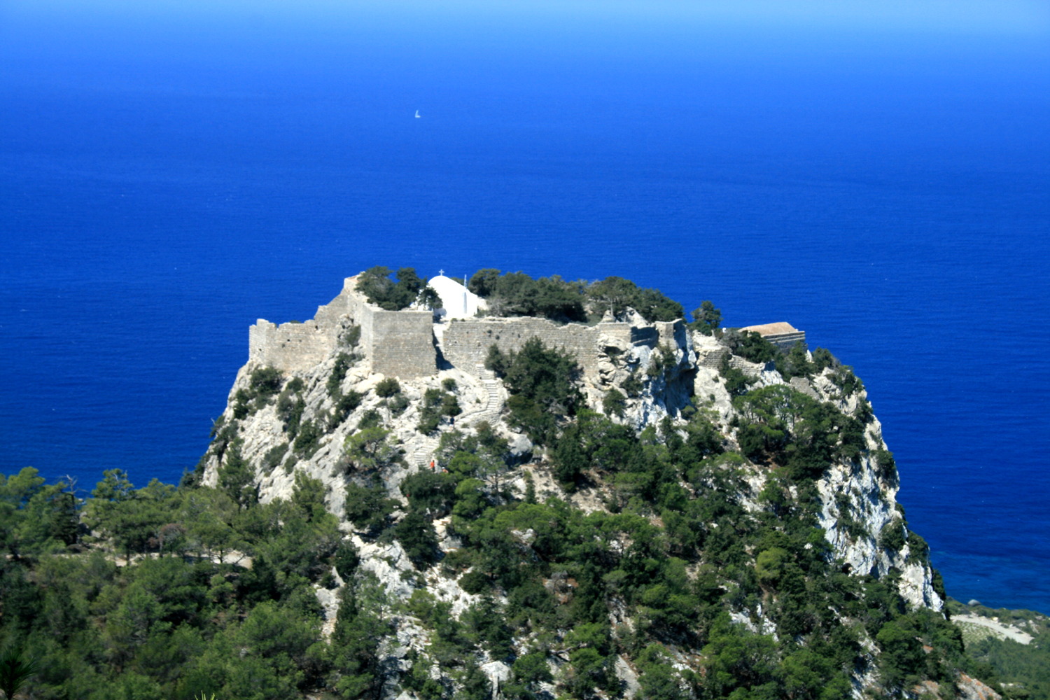 Old fortress Monolithos on island Rhodes Stará pevnost Monolithos na řeckém ostrově Rhodos Date= August 2007 Author= Karelj